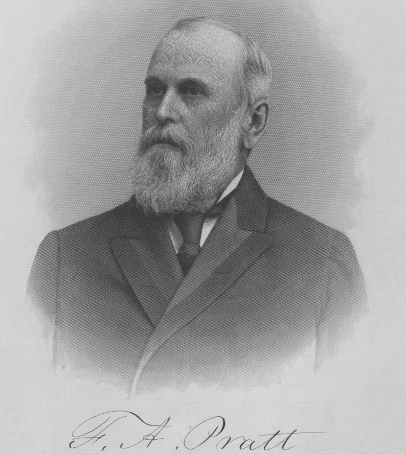 Picture of Francis Pratt. founder of Pratt & Whitney